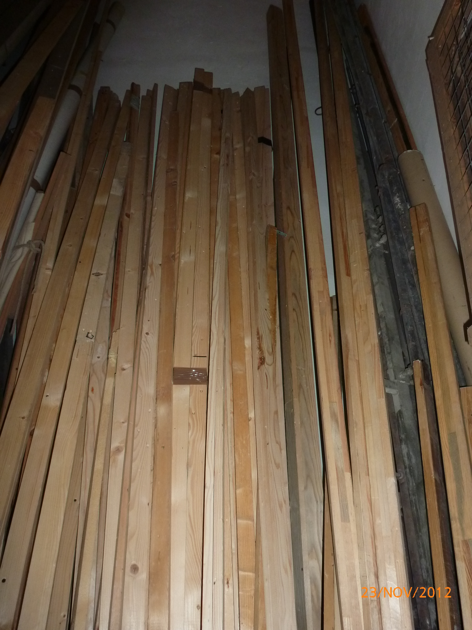 Planks used in the theatre for making flats, building sets, etc.